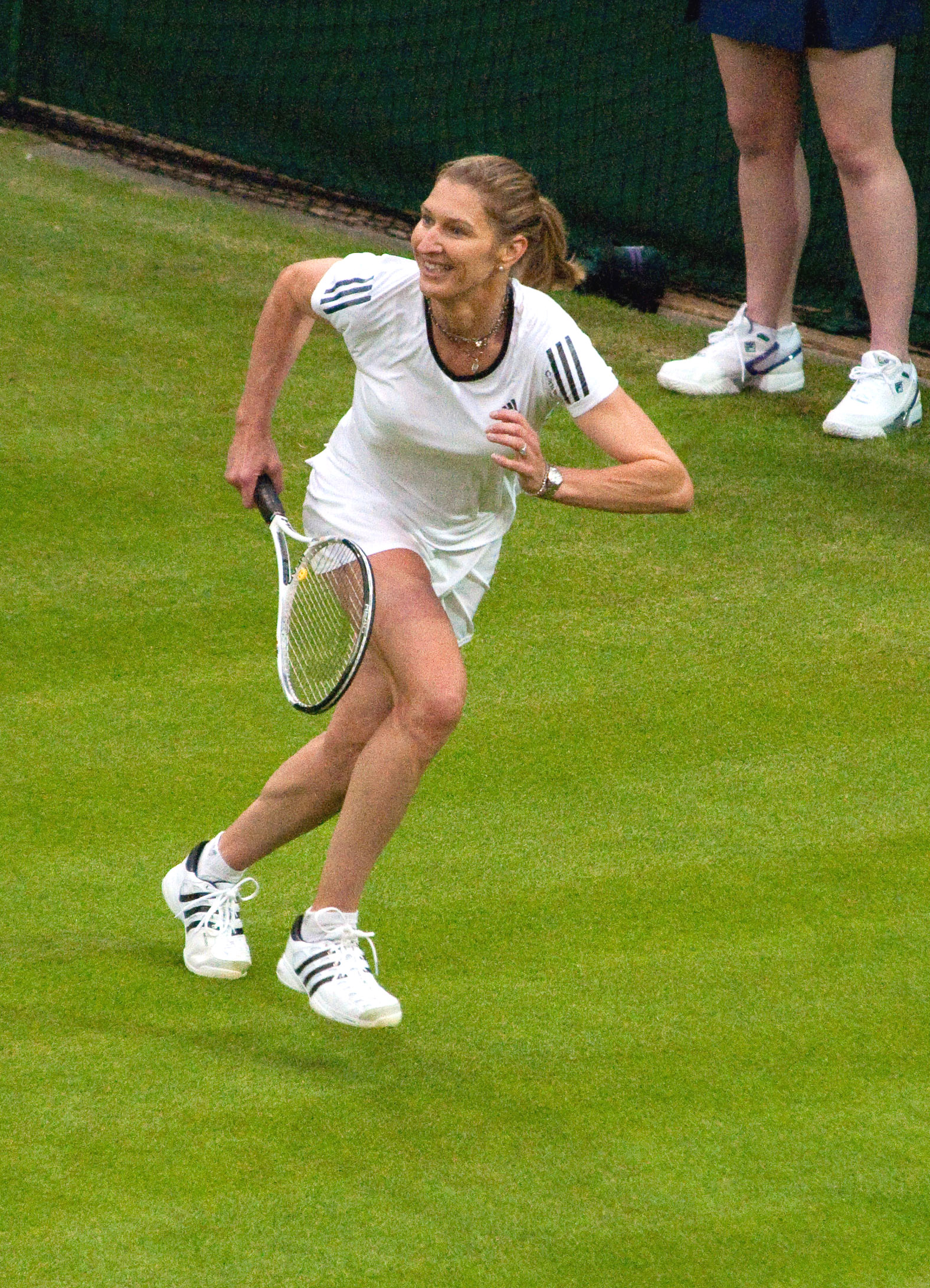 Former World No. 1 German female tennis player Steffi Graf during the special event “A Centre Court Celebration” (event was designed to test a new roof and air management system with live tennis in front of a capacity crowd of 15,000 – Andre Agassi and Steffi Graf played vs. Tim Henman and Kim Clijsters) Camera: Nikon D300 License on Flickr (2011-01-08): CC-BY-2.0 Flickr tags: Steffi Graf, Wimbledon, Centre Court, Centre Court Celebration